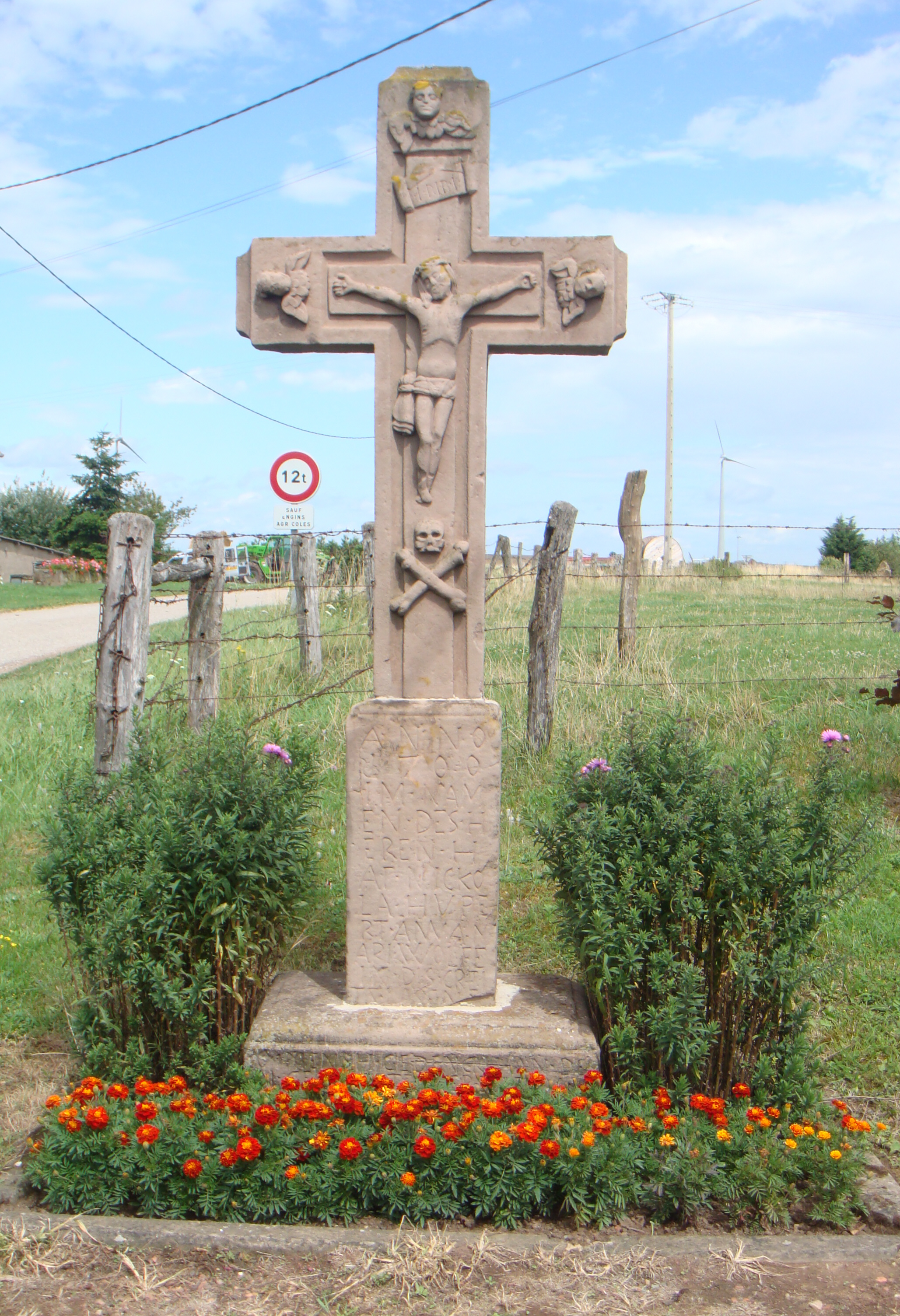 Cross dated 1700 in the village of Léning (France, Lorraine)